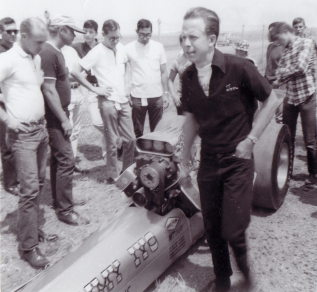 NHRA drag racer Tommy Ivo, Amarillo 1966Tommy Ivo